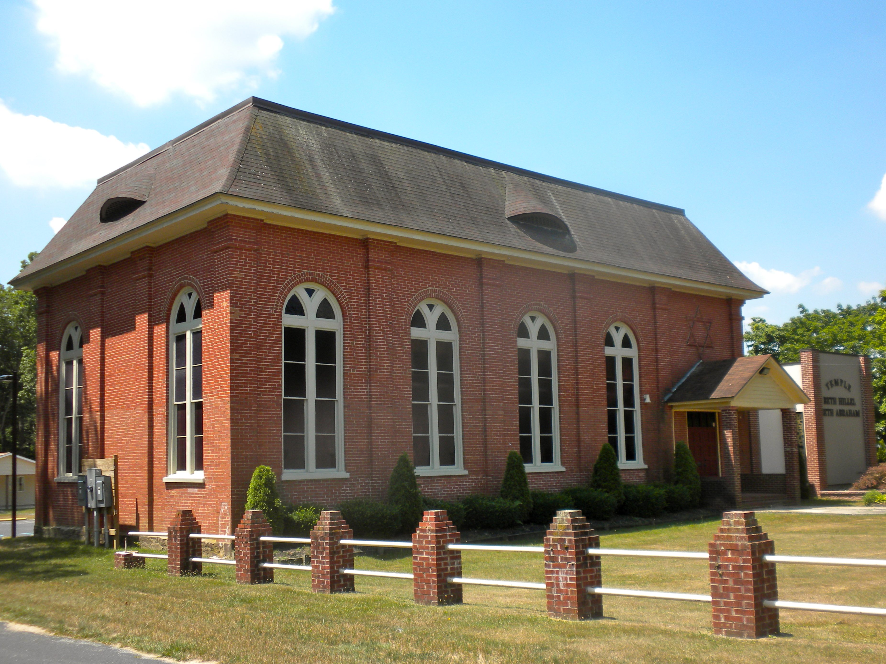 Beth Hillel Synagogue on NRHP since November 7, 1978. On Irving Ave. in Deerfield Township